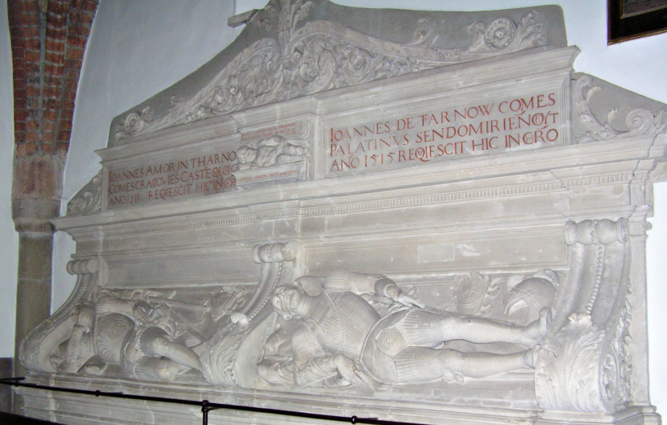 Epitaph of Tarnowscy: Jan Tarnowski, Jan Amor Tarnowski, Jan Aleksander Tarnowski. Cathedral in Tarnów, Poland